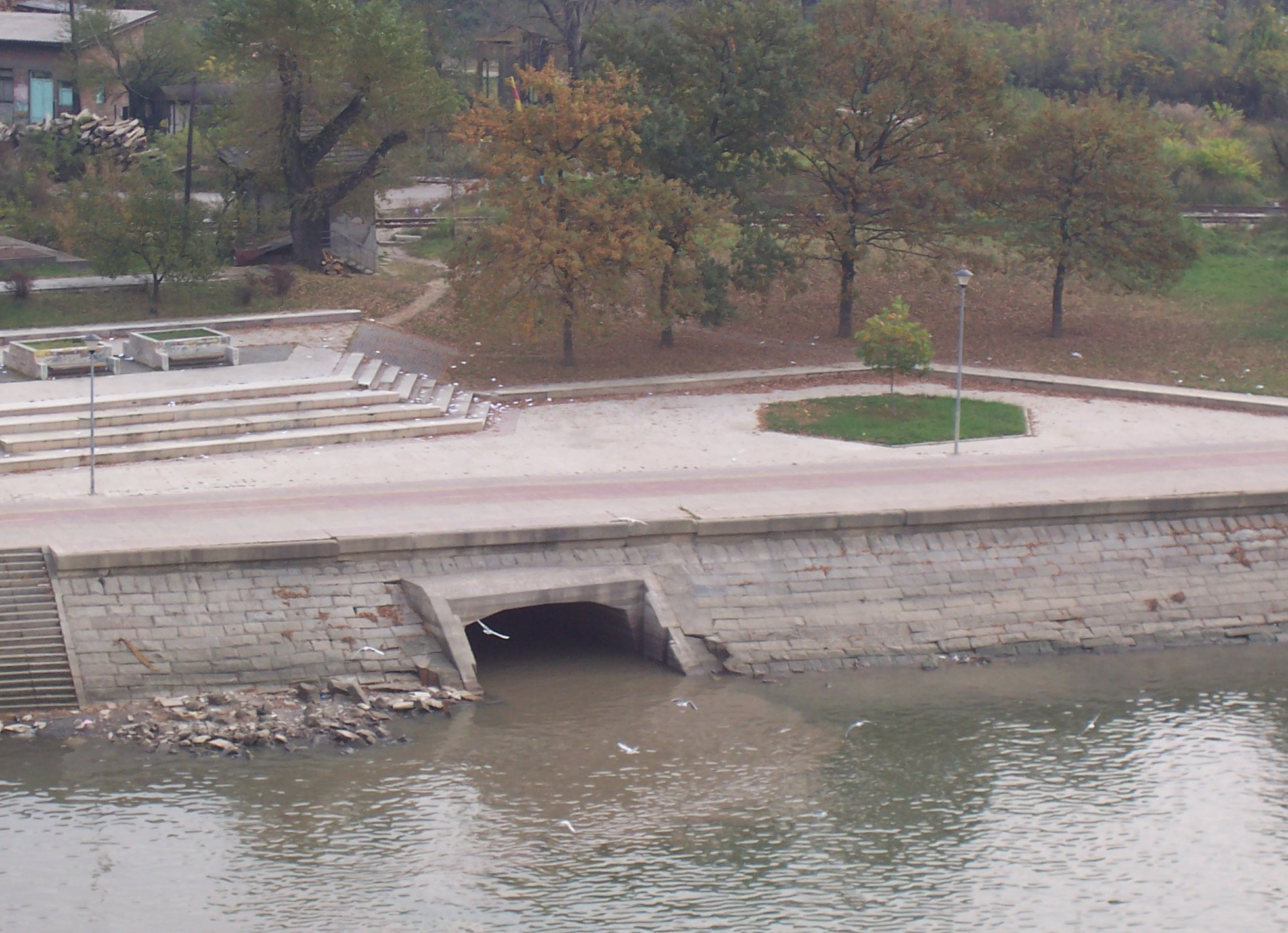 Mouth of Mokroluška River.